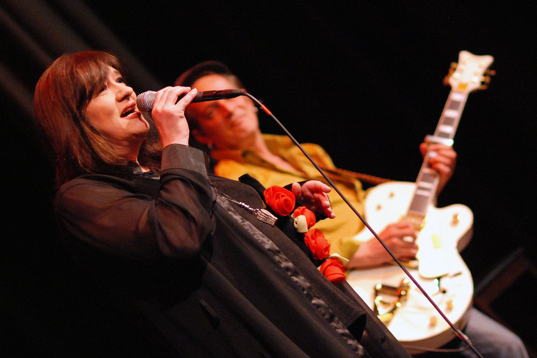 Ulla Meinecke and Ingo York